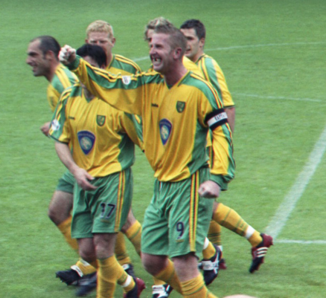 Iwan Roberts celebrates scoring against Crewe Alexandra F.C. in his last match for Norwich City F.C., the game that saw The Canaries confirmed as Champions of the Football League, 2003-2004.